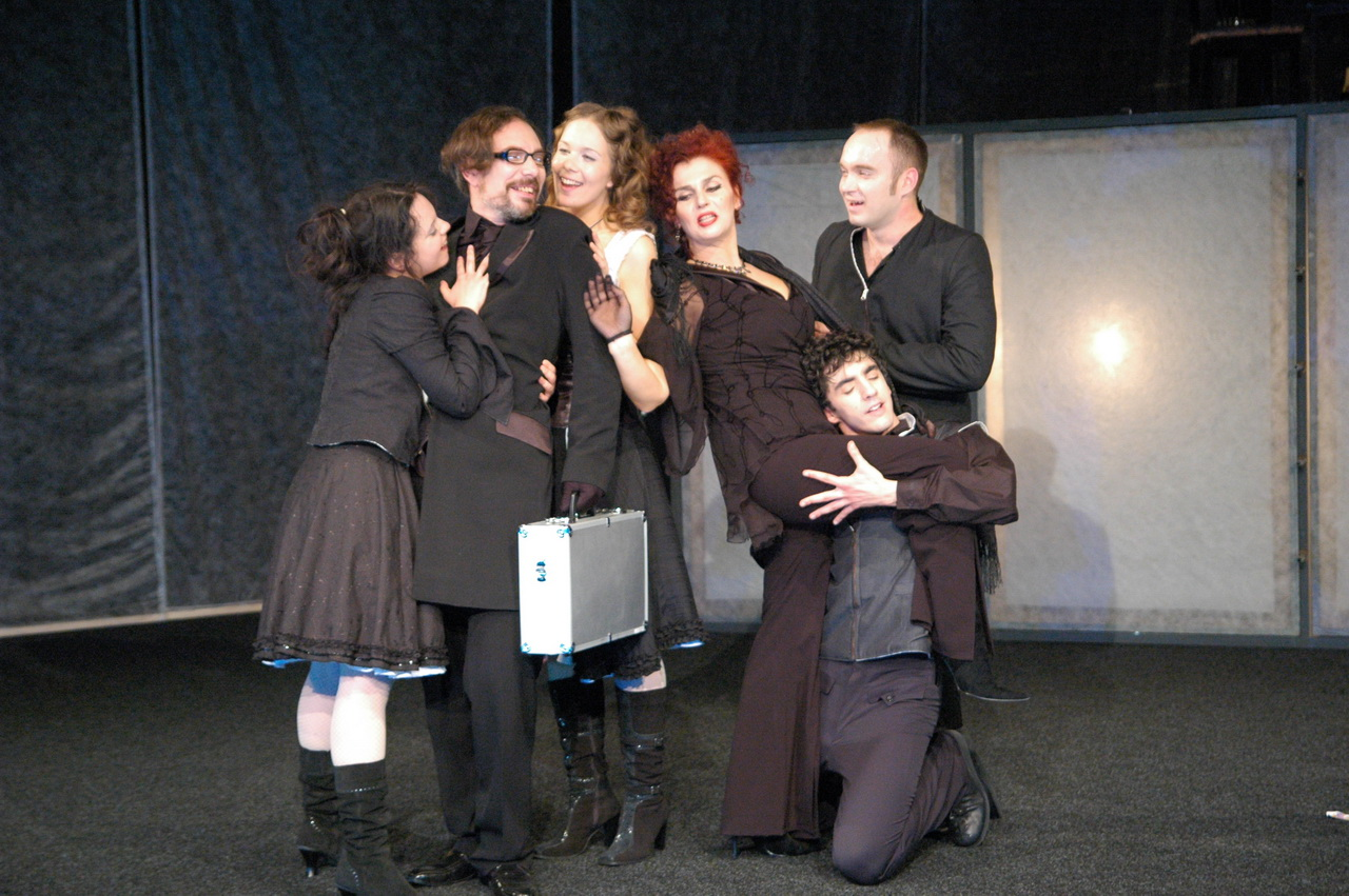 La Dispute (A Matter of Dispute), a prose comedy written by Pierre de Marivaux; Jovana Mišković, Aleksandar Gajin, Milica Grujičić, Gordana Josić, Srđan Sekulić, Strahinja Bojović, SNT, Novi Sad, 2006/07 Srpski (latinica): Rasprava (i tako te stvari), prozna komedija Pjera Mariva; Jovana Mišković, Aleksandar Gajin, Milica Grujičić, Gordana Josić, Srđan Sekulić, Strahinja Bojović, SNP, Novi Sad, 2006/07. Српски (ћирилица): Расправа (и тако те ствари), прозна комедија Пјера Марива; Јована Мишковић, Александар Гајин, Милица Грујичић, Гордана Јосић, Срђан Секулић, Страхиња Бојовић, СНП, Нови Сад, 2006/07.